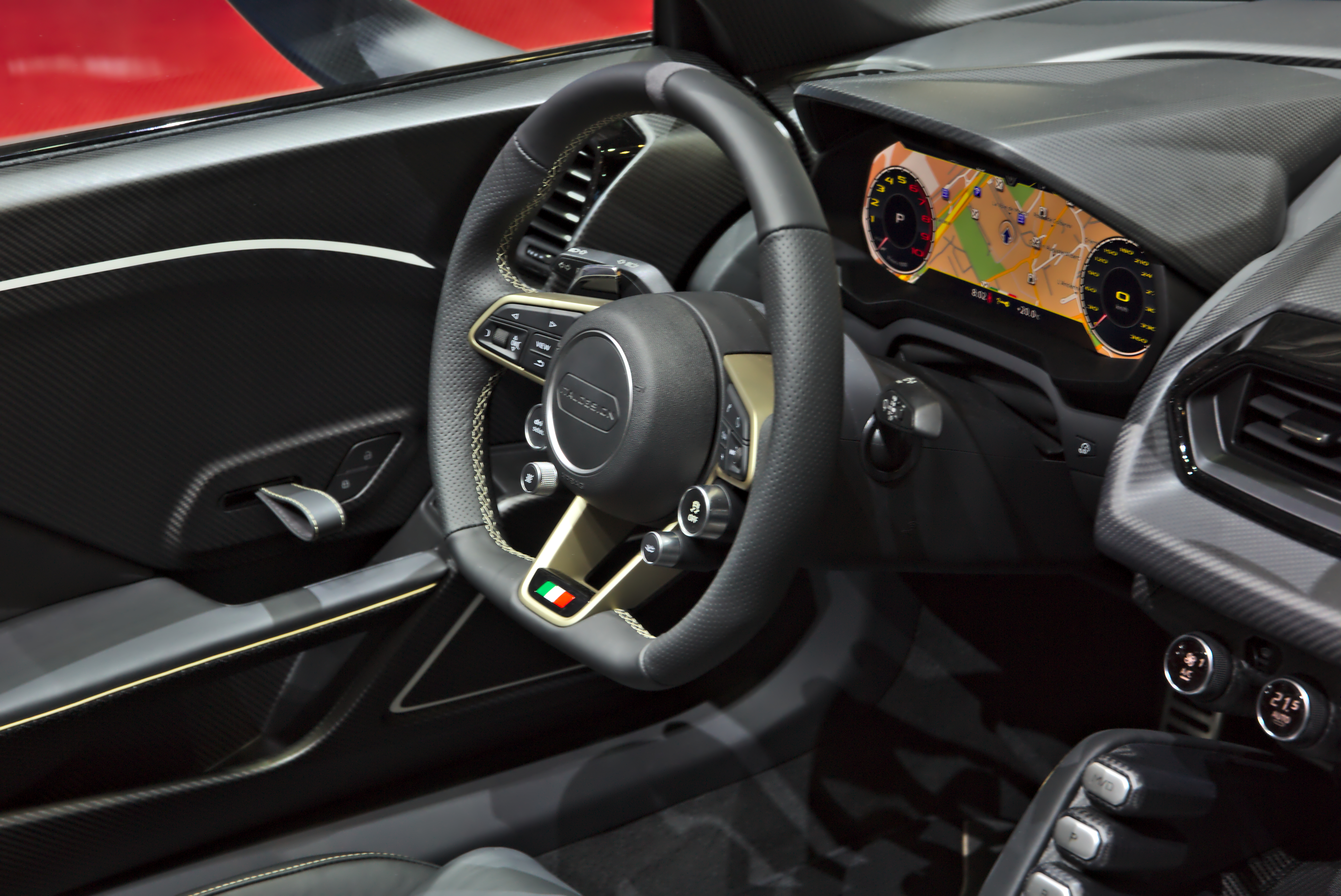 Italdesign Zerouno Duerta at Geneva Motorshow 2018